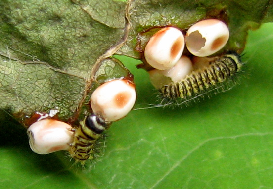 Promethea Moth Callosamia promethea eggs and 1st instar, Wheatley, Ontario, Canada.